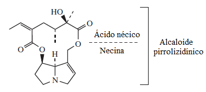 PA's structure